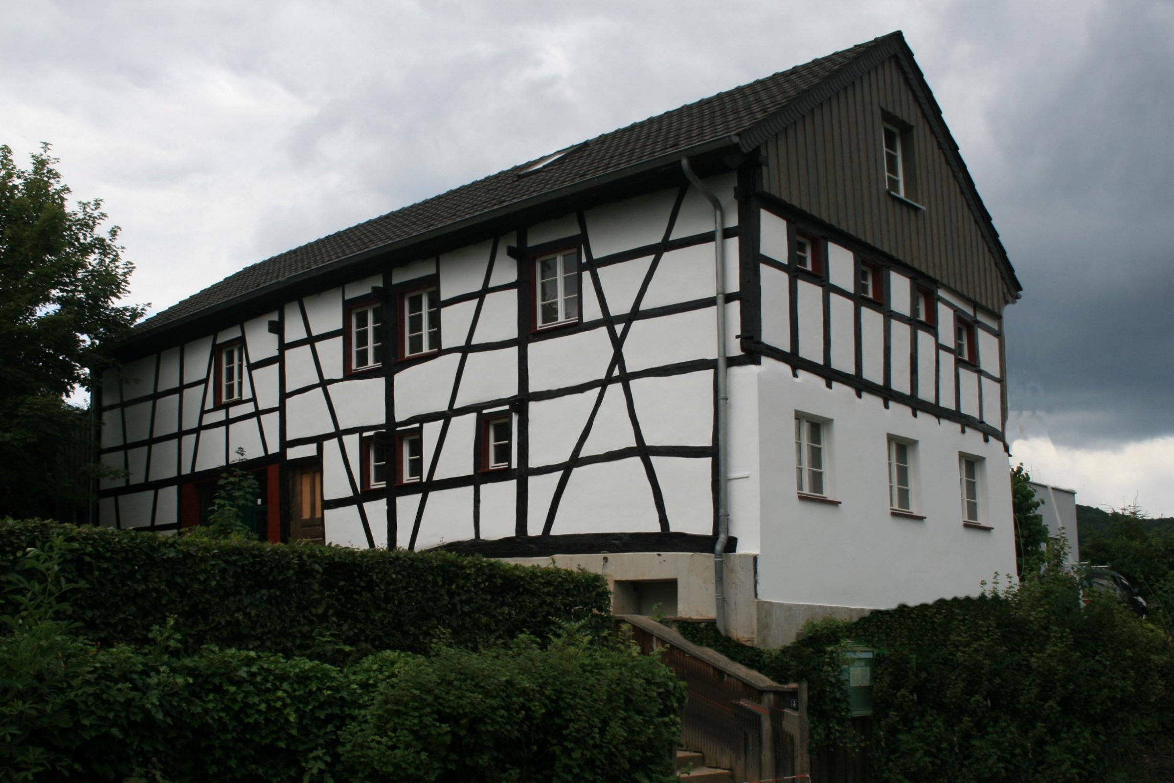 Cultural heritage monument No. 78 in Heimbach